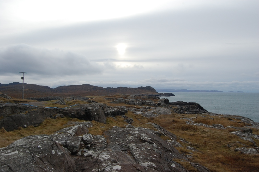 Ardmanurchan Point to Corrachadh Mòr with sun at local noon, illustrating the westerly extension.